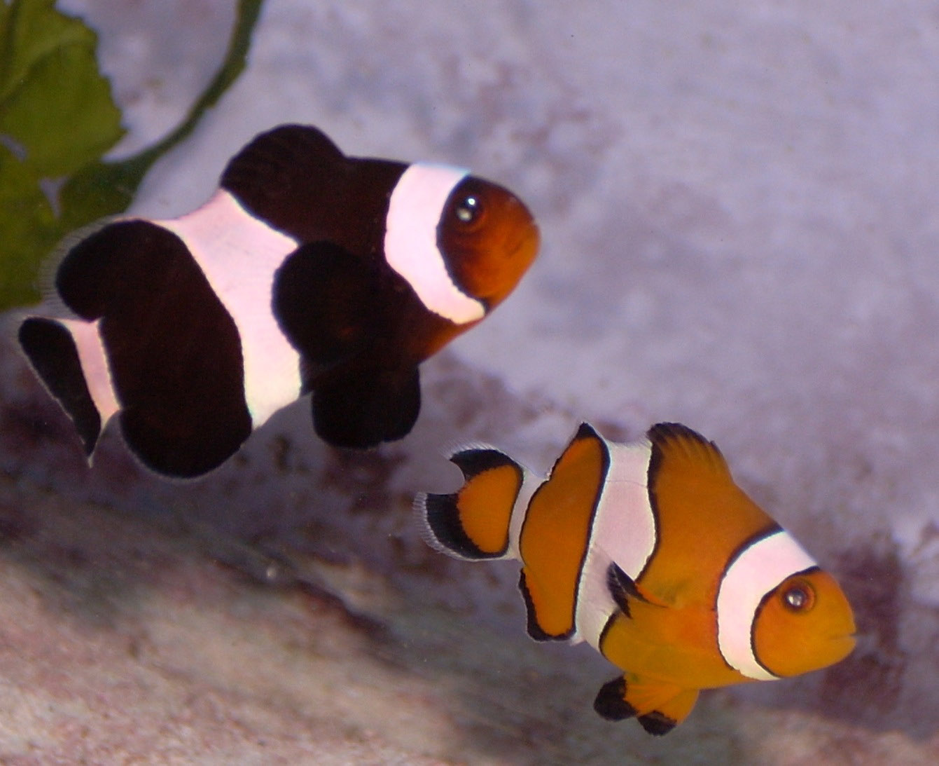 Two ocellaris clownfish, one of the rarer black melanistic variety and one normally coloured.